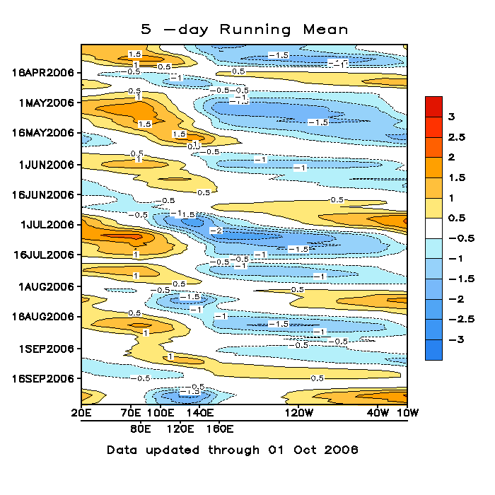 Daily Madden-Julian Oscillation Indice for 2 October 2006